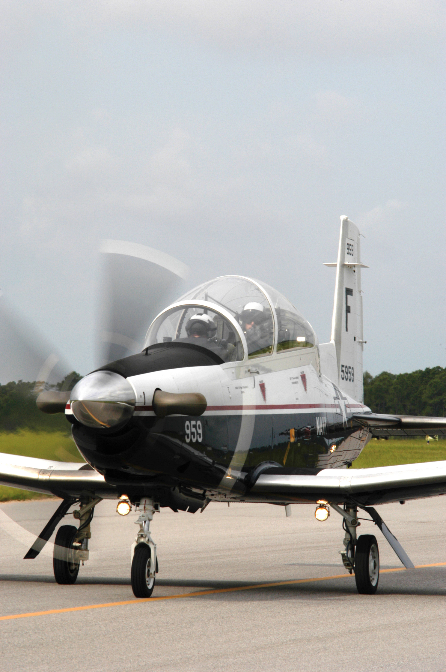 Naval Air Station Pensacola, Fla. (Aug. 7, 2003) -- The T-6 Texan training aircraft prepares to take off from the flight line at Naval Air Station (NAS) Pensacola. The Texan will replace the Navy’s T-34C Turbo Mentors and the Air Force T-37B “Tweety Bird” as the primary pilot training aircraft at both NAS Pensacola and NAS Whiting Field. Only one model of aircraft will be used for training Air Force and Navy pilots, as part of the Department of Defense’s effort to streamline military training operations and reduce costs while increasing efficiency. U.S. Navy photo. (RELEASED)